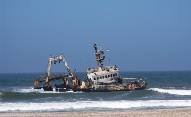 Zelia India shipwreck, south of Henties Bay